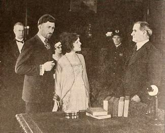 Still from the American film serial Hidden Dangers (1920) with Joe Ryan and Jean Paige, on page 4794 of the June 12, 1920 Motion Picture News.